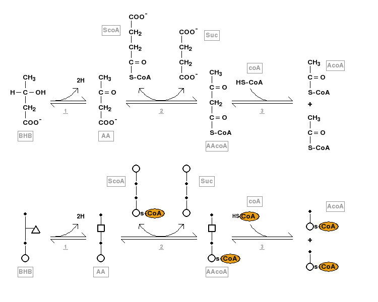 Ketogenesis intermediates using Fischer representation comparing to polygonal model. The last form is easier and faster to read and write, and shows with clarity each change of the intermediates in the reactions.